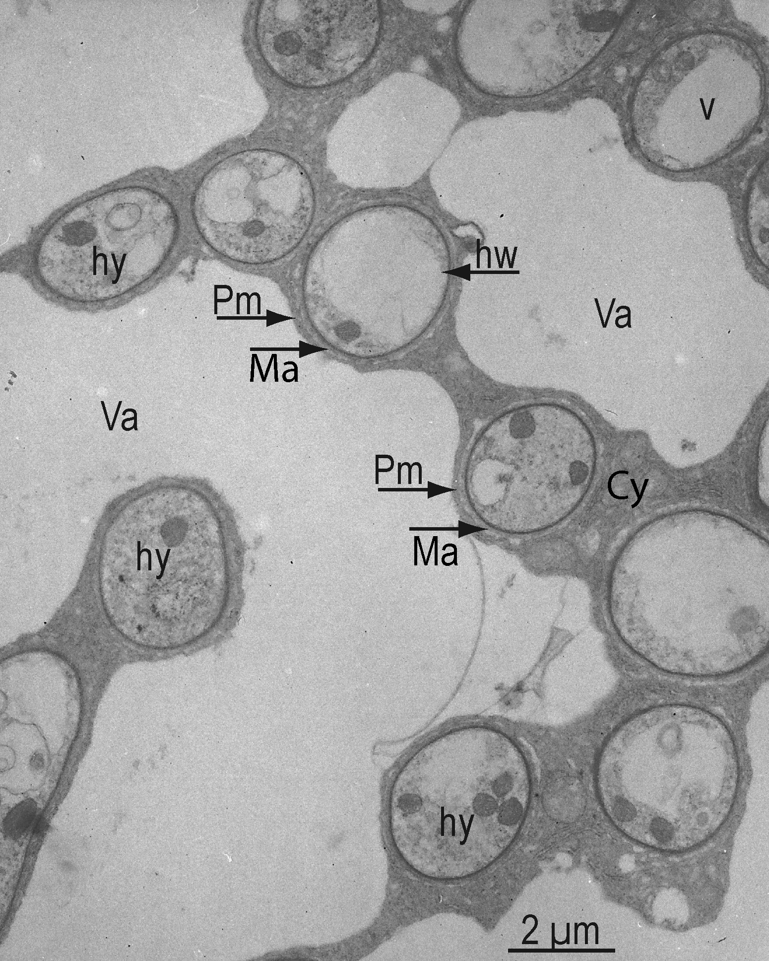 Transmission electron micrographs of intracellular hyphae in an orchid mycorrhiza Legende : Cy Cytosol ; Va Vacuole ; Pm Plasma membrane ; Ma Interfacial matrix ; hy hyphe ; hm Hyphal membrane